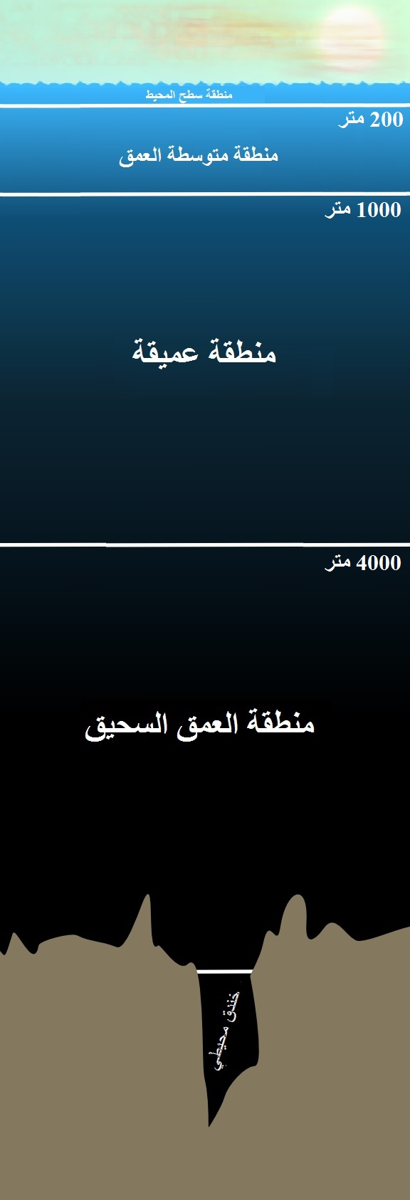 مناطق المحيط